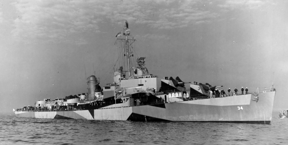 The U.S. Navy destroyer minelayer USS Aaron Ward (DM-34) on 17 November 1944.